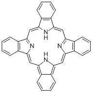 MyBP.jpg